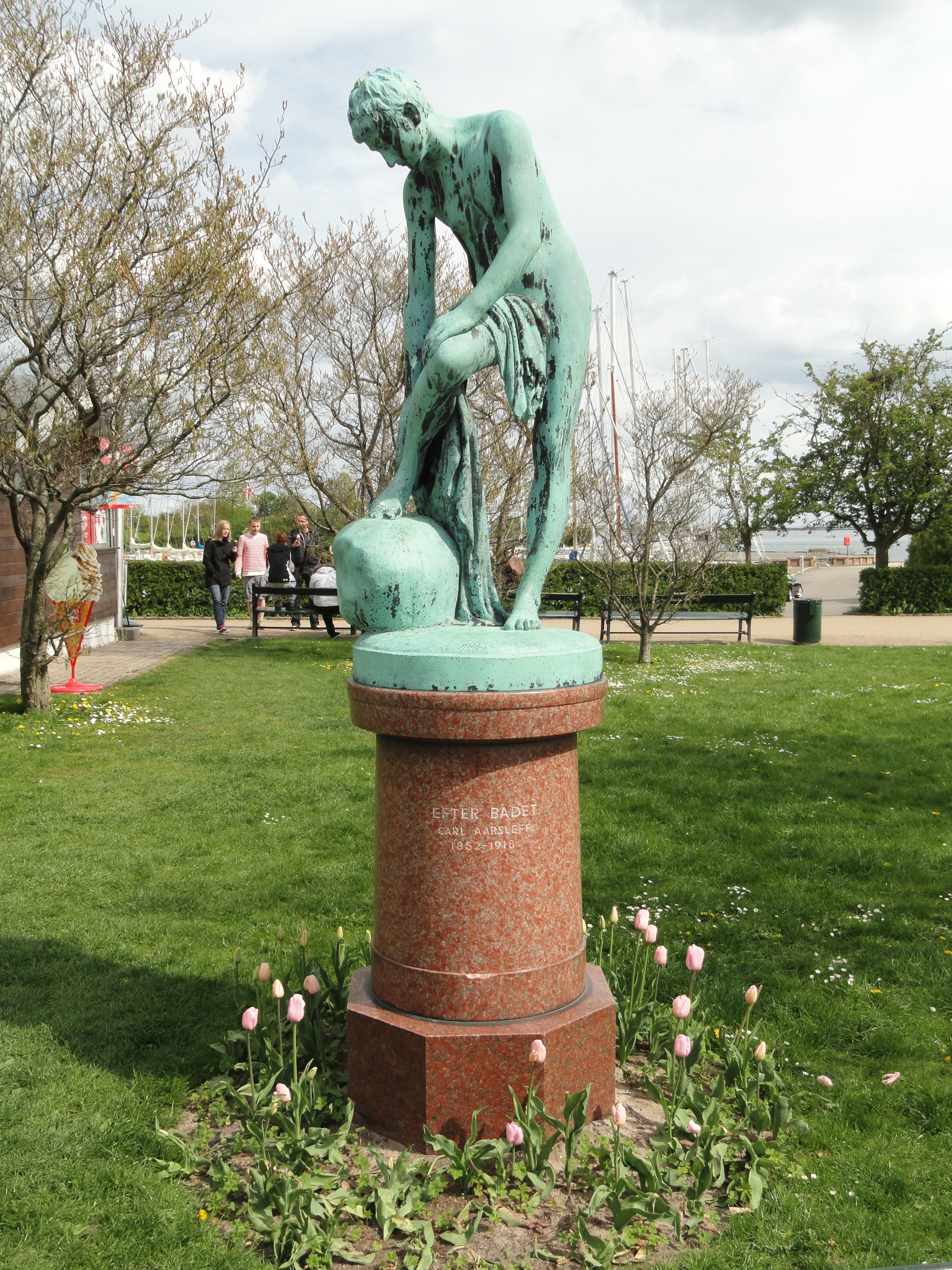 Efter badet (After the bath) - Langelinie, Copenhagen, Denmark. Sculpted by Carl Aarsleff (1852-1918). This statue is in the public domain because the sculptor died more than 70 years ago.